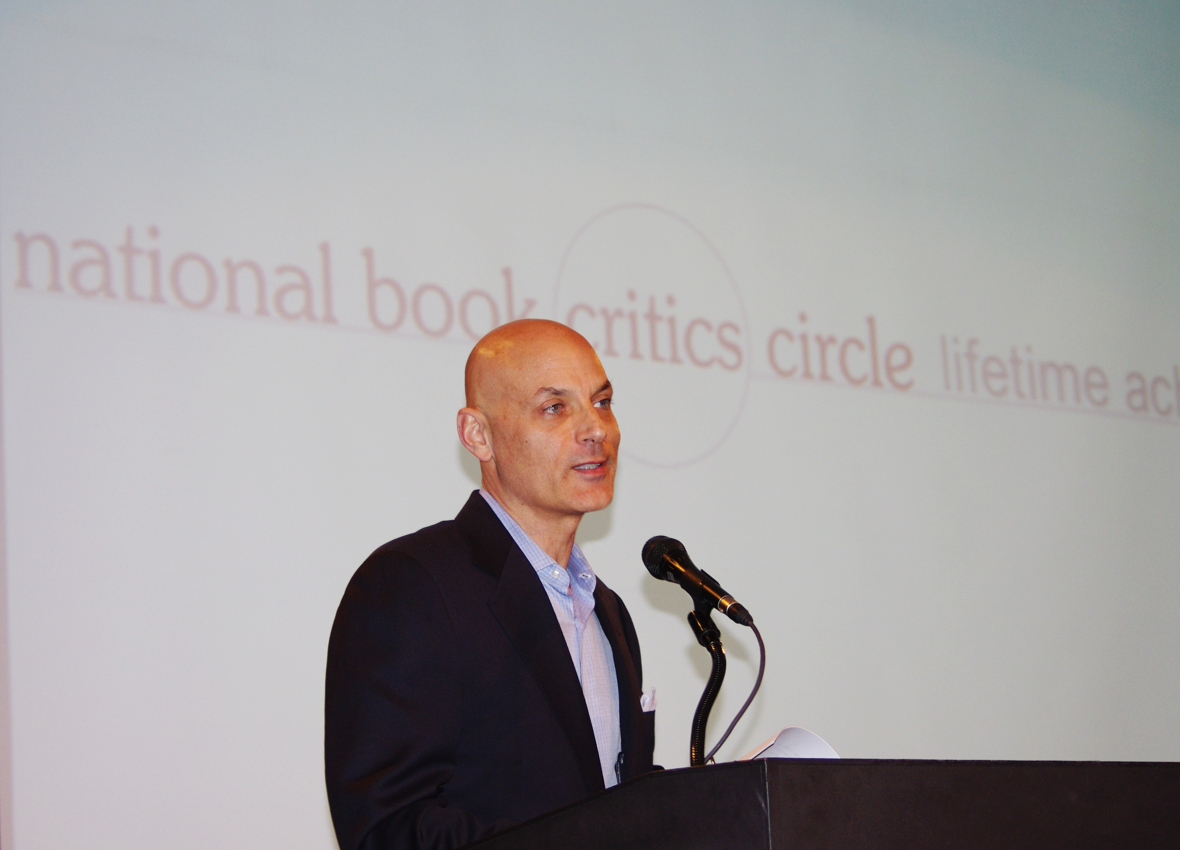 Daniel Mendelsohn at National Book Critics Circle Awards for the publishing year 2011. March 7-8, 2012 David Shankbone